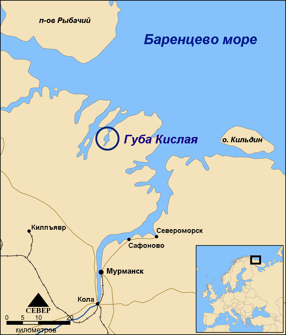 Map showing the location of the Kislaya Guba tidal power project in the Kola Peninsula, Russia.